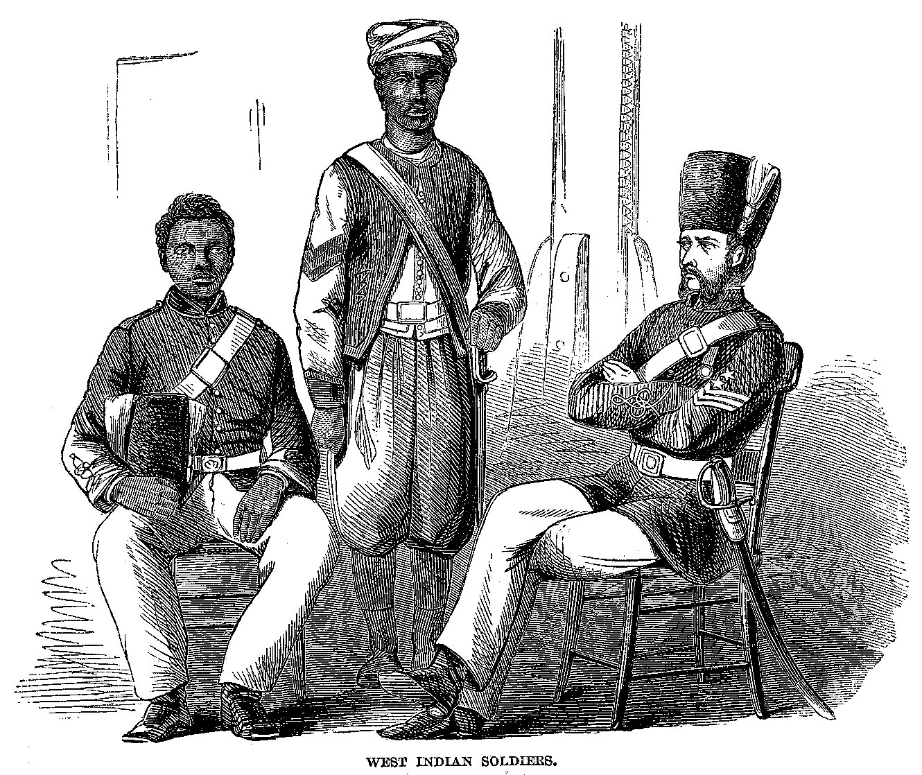 "West Indian Soldiers", illustration of article "Cast-away in Jamaica" by W.E. Sewell, in Harper's Monthly Magazine, January 1861.